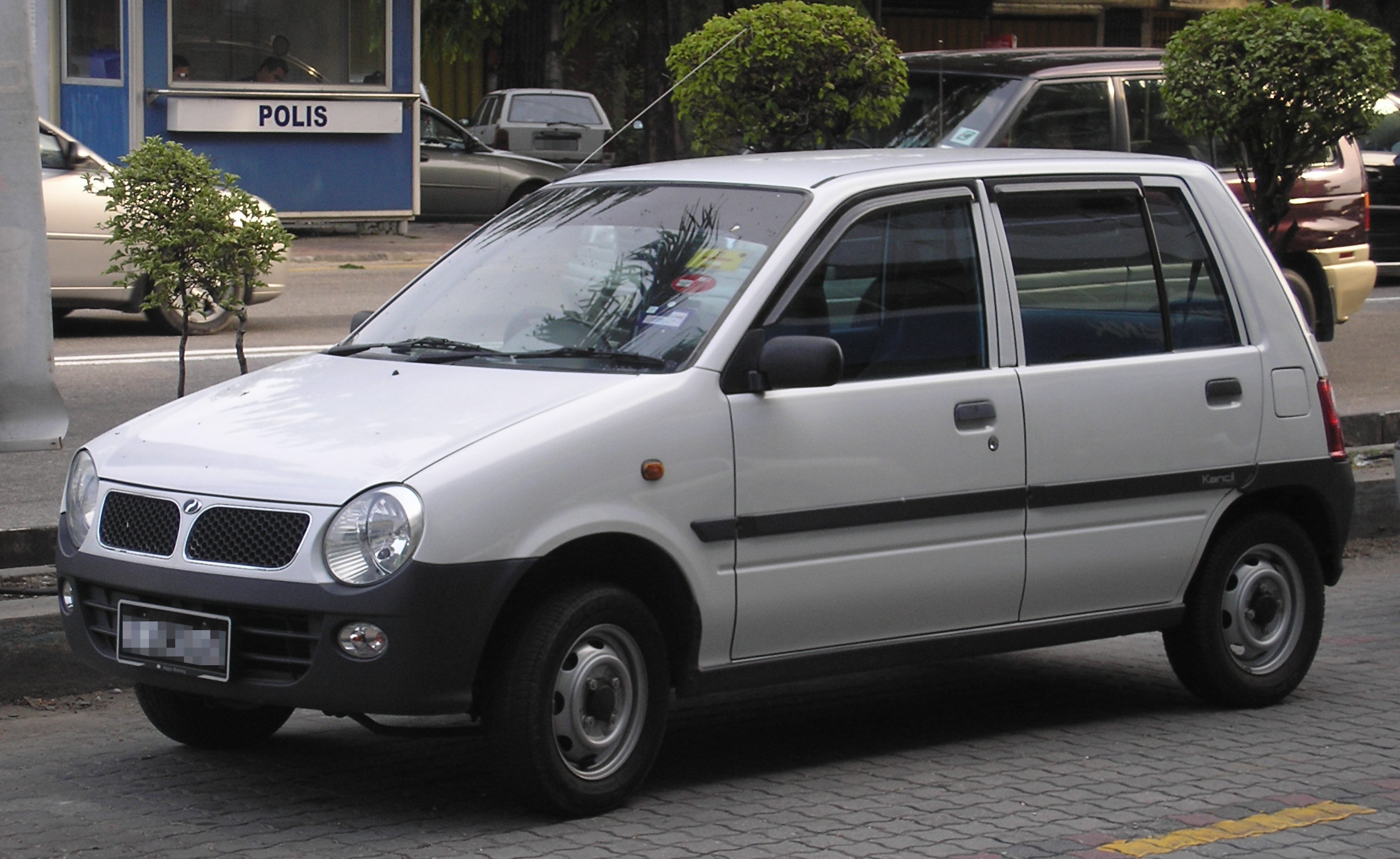 Front-side shot of a first generation, third facelifted Perodua Kancil, in Seri Kembangan, Selangor, Malaysia.